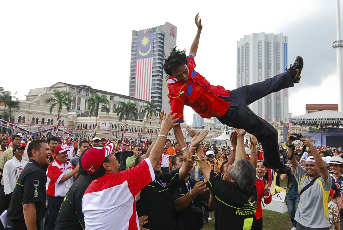 A man is thrown into the air by a crowd during celebrations for Merdeka Day (Malaysian independence day) in Merdeka Square, Kuala Lumpur, 2008.